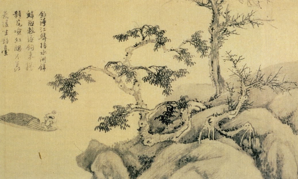 Wu Zhen. Fishermen, detail. 35,2x332cm. c. 1345. Shanghai Museum.